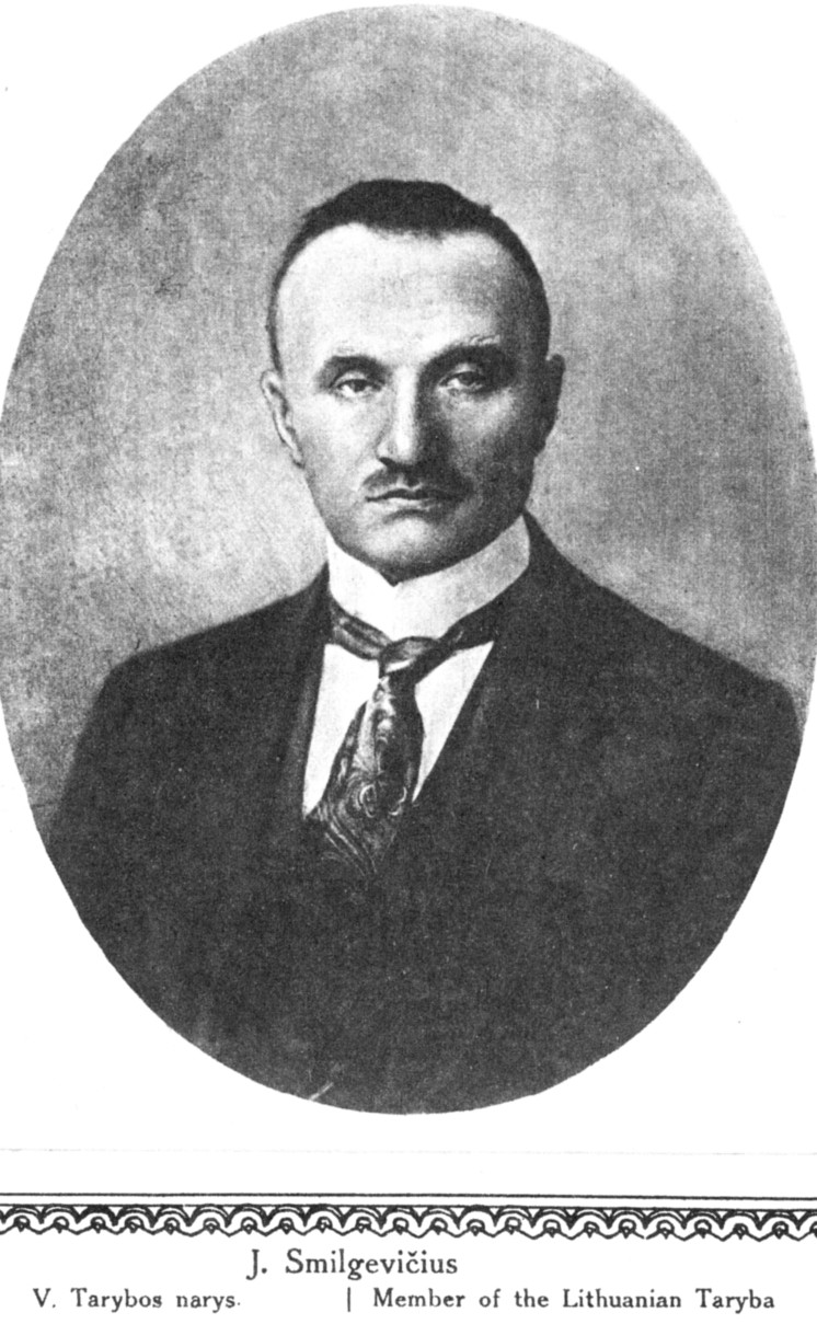 Jonas Smilgevičius, one of Signatories of the Act of Independence of Lithuania, member of Constituent Assembly of Lithuania, banker, economist